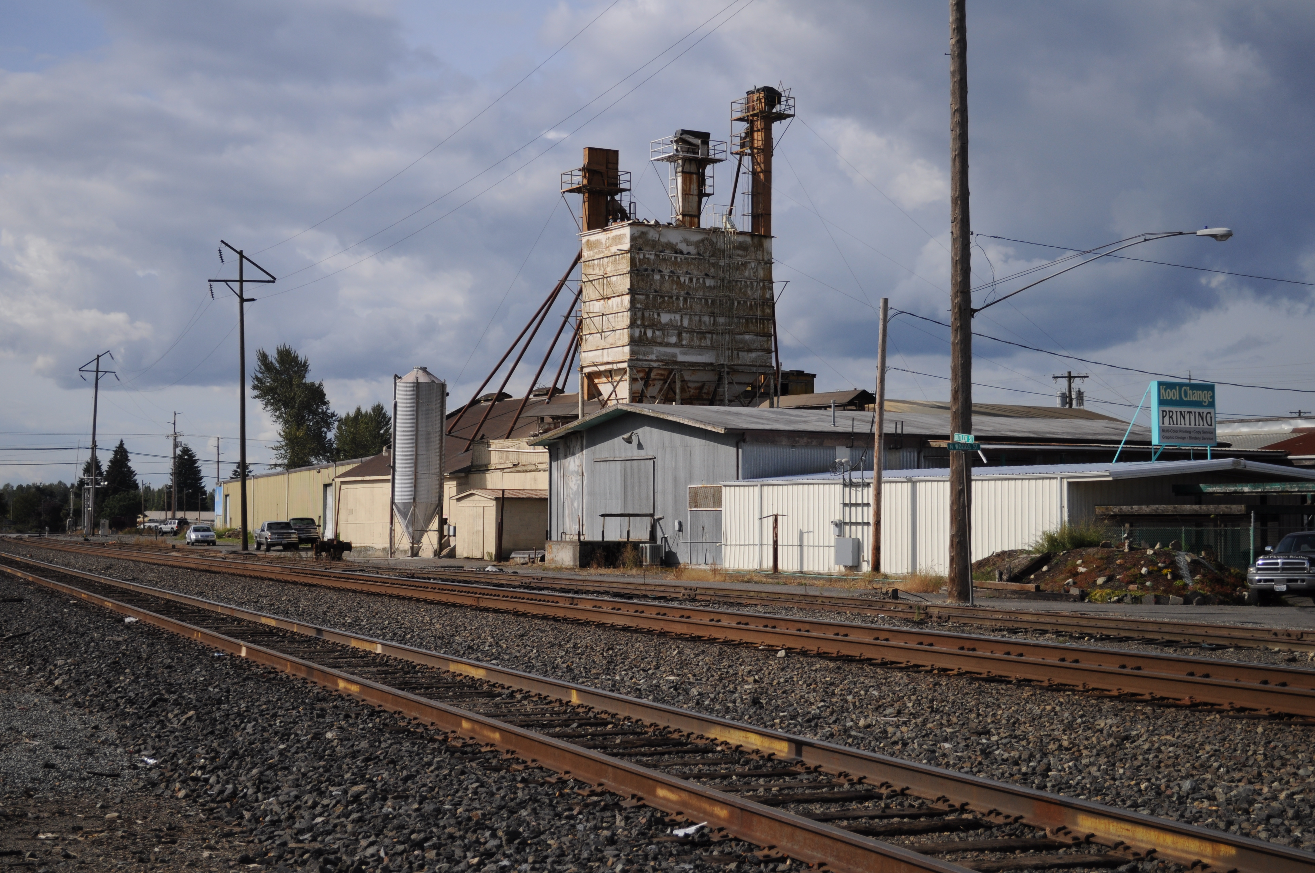 Railroad, looking north from E. Main Street, Monroe, Washington.